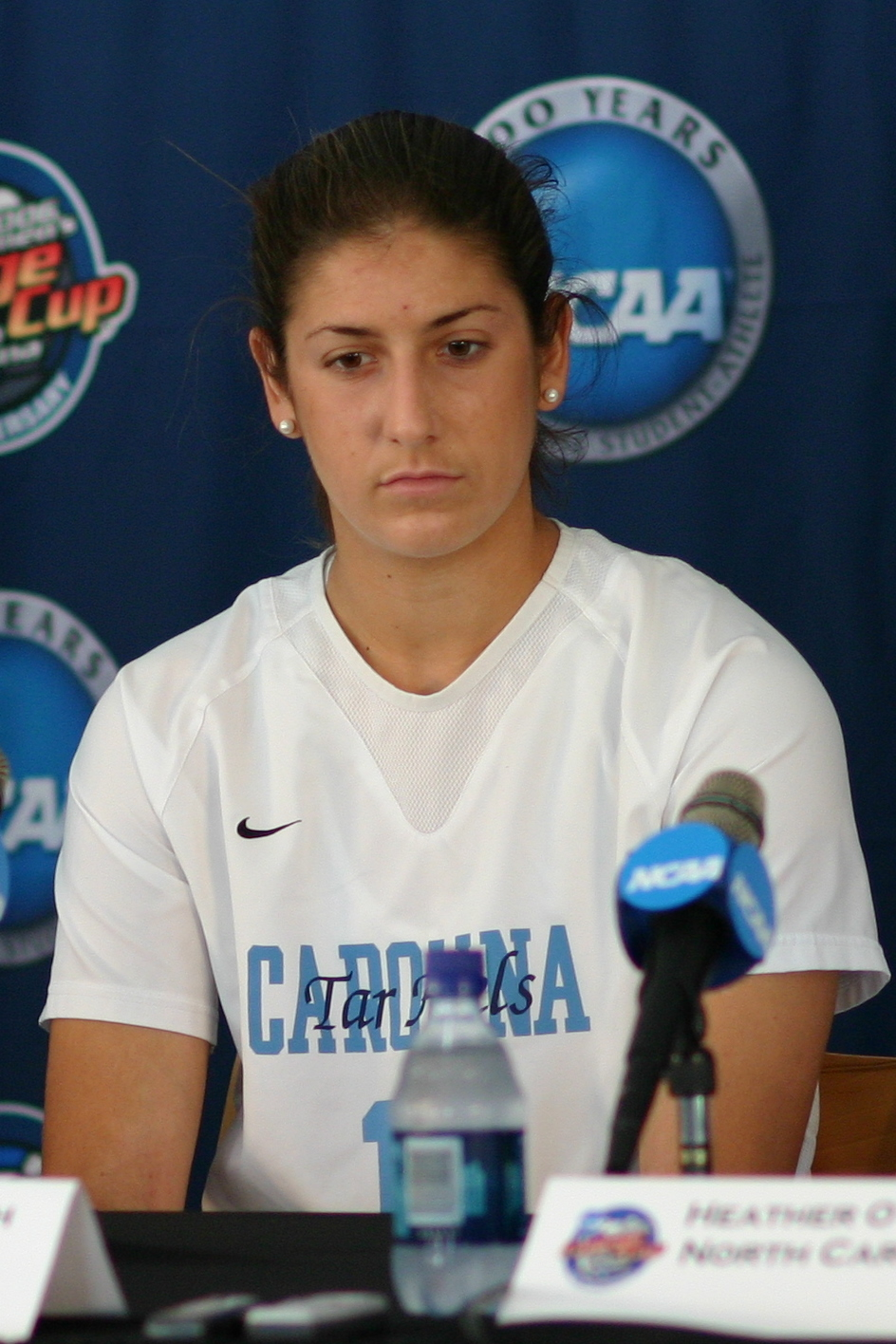 UNC's Yael Averbuch talks to the media the day before the 2006 Women's College Cup kicks off at SAS Soccer Park in Cary, NC